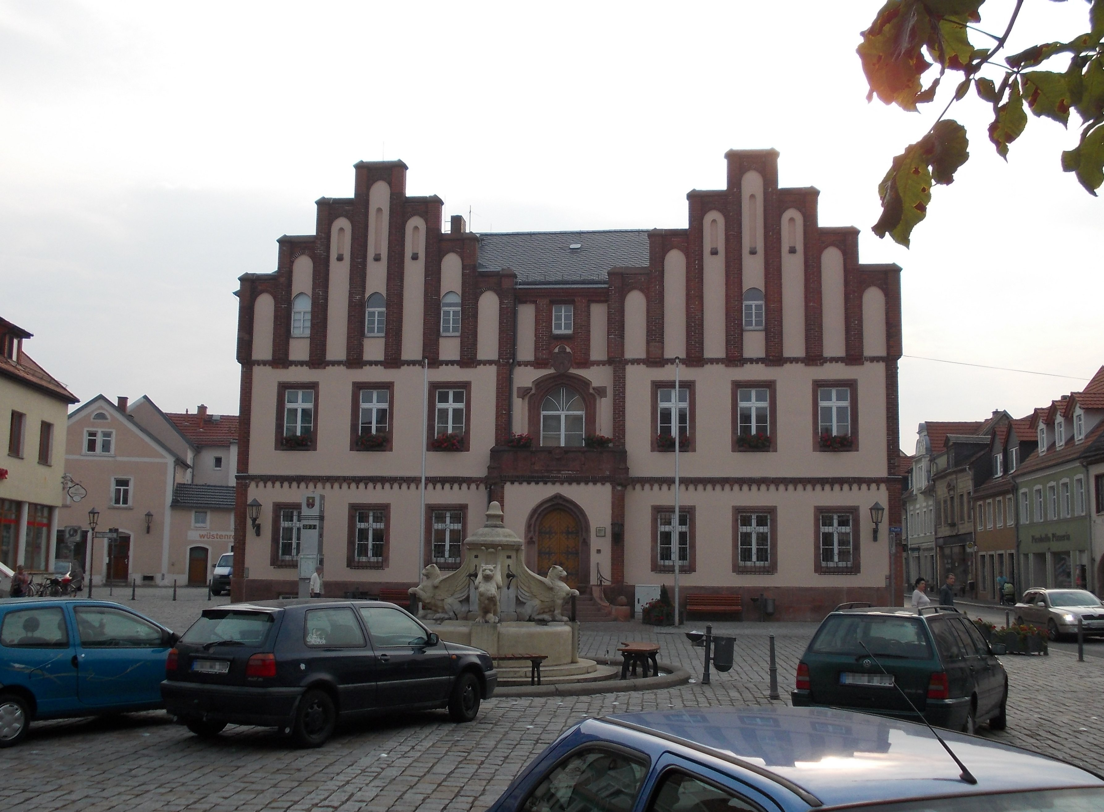 Town hall in Mügeln (Nordsachsen district, Saxony)